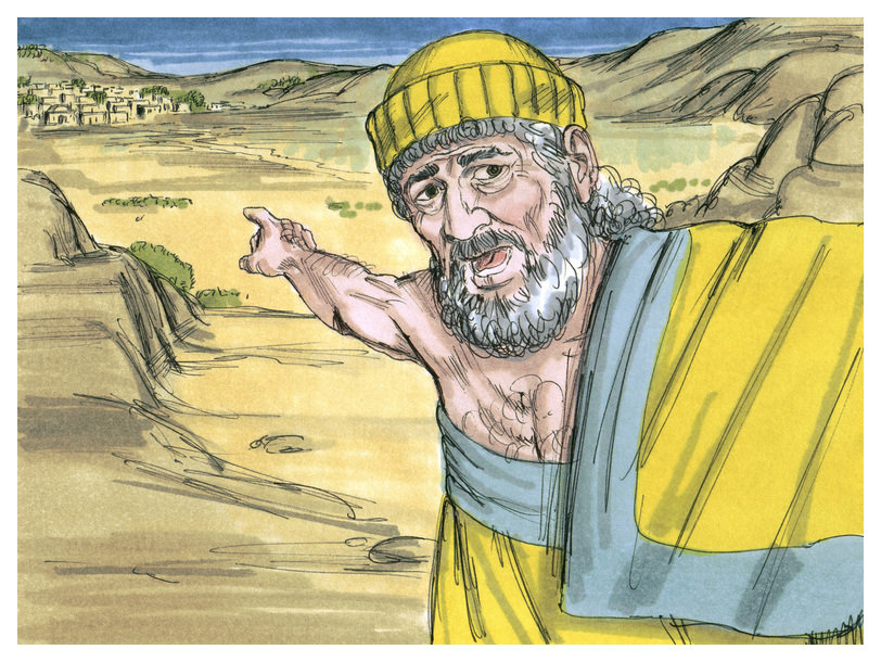 Biblical illustration of Book of Genesis Chapter 19